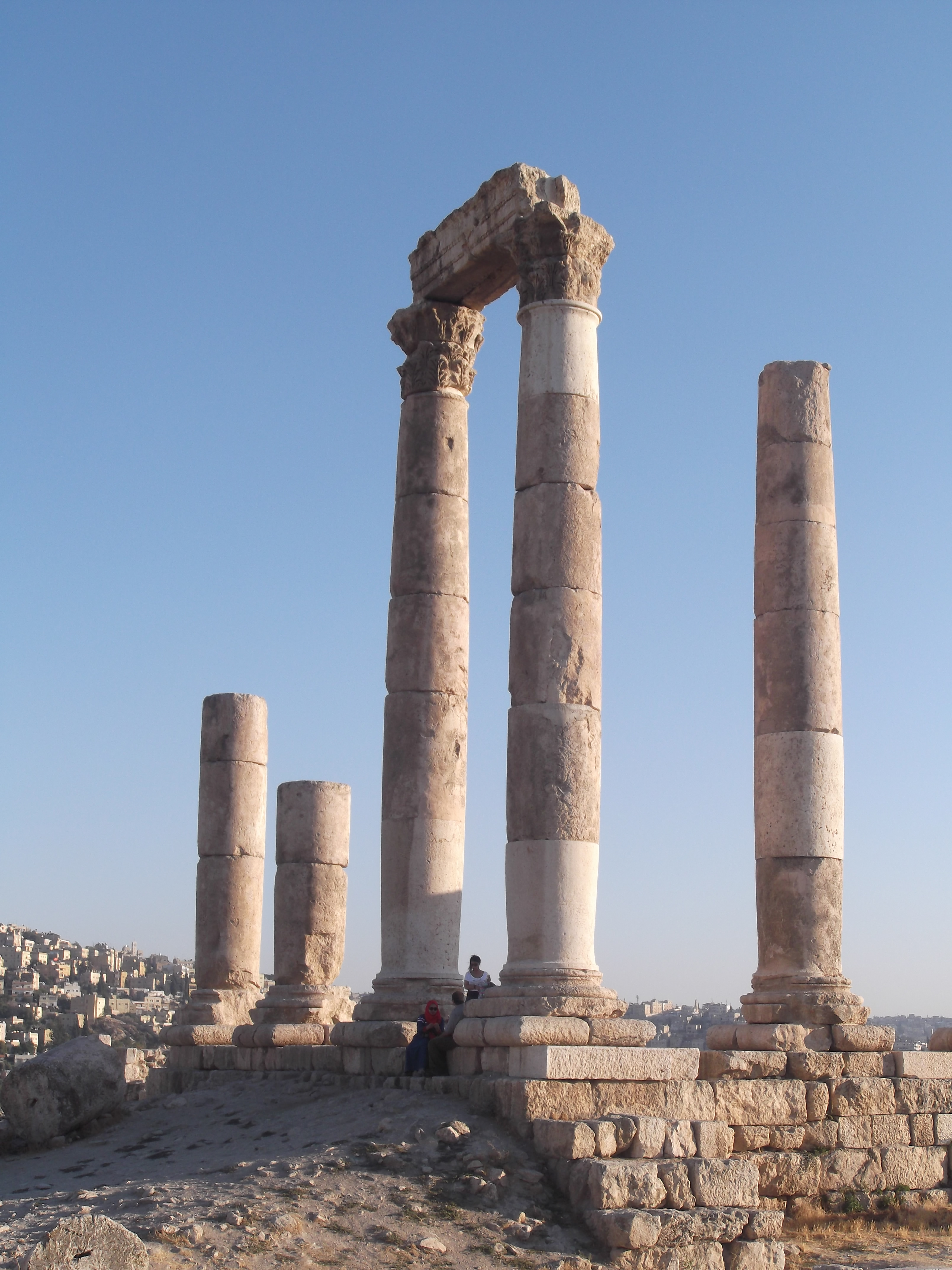 معبد هرقل في جبل القلعة بعمان